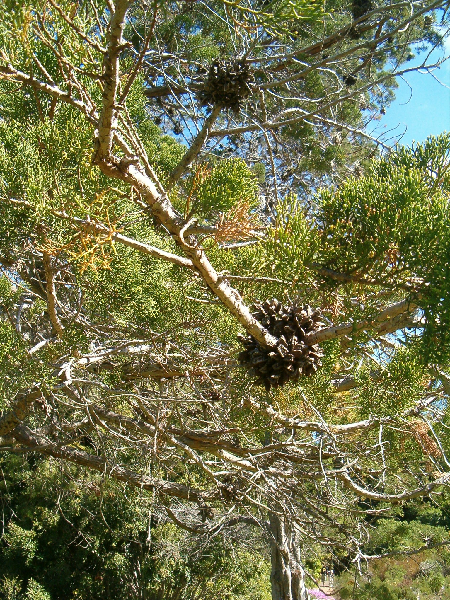 At Kirstenbosch National Botanical Gardens Species Widdringtonia nodiflora""